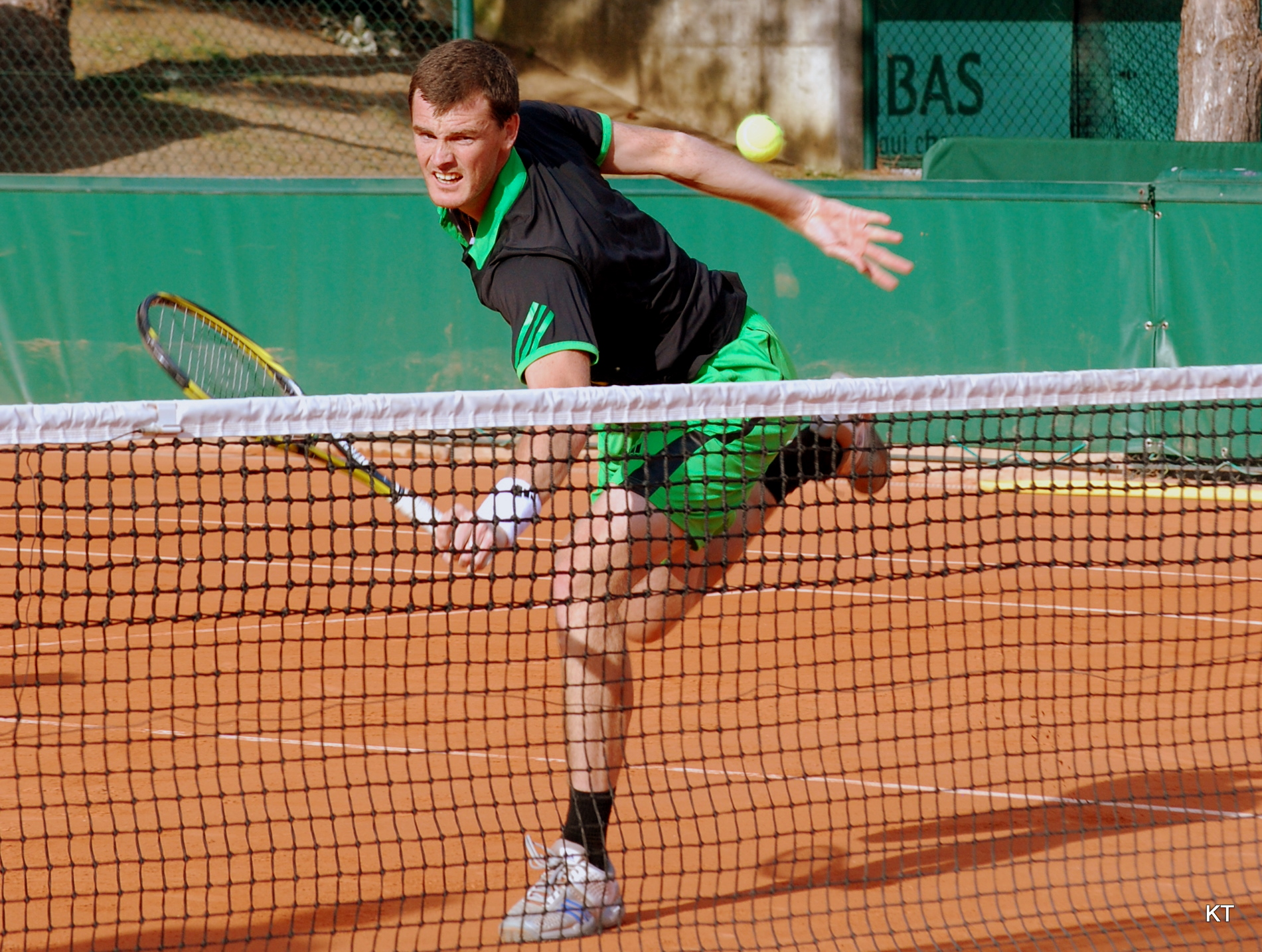 2nd round mixed doubles match: Jamie Murray & Nadia Petrova, against Max Mirnyi & Elena Vesnina. Murray & Petrova won 6-3, 4-6, 13-11. Day 7 of Roland Garros 2011.